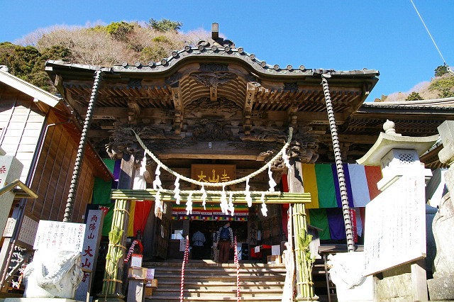 Ōyama-dera temple in Isehara, Kanagawa prefecture, JAPAN